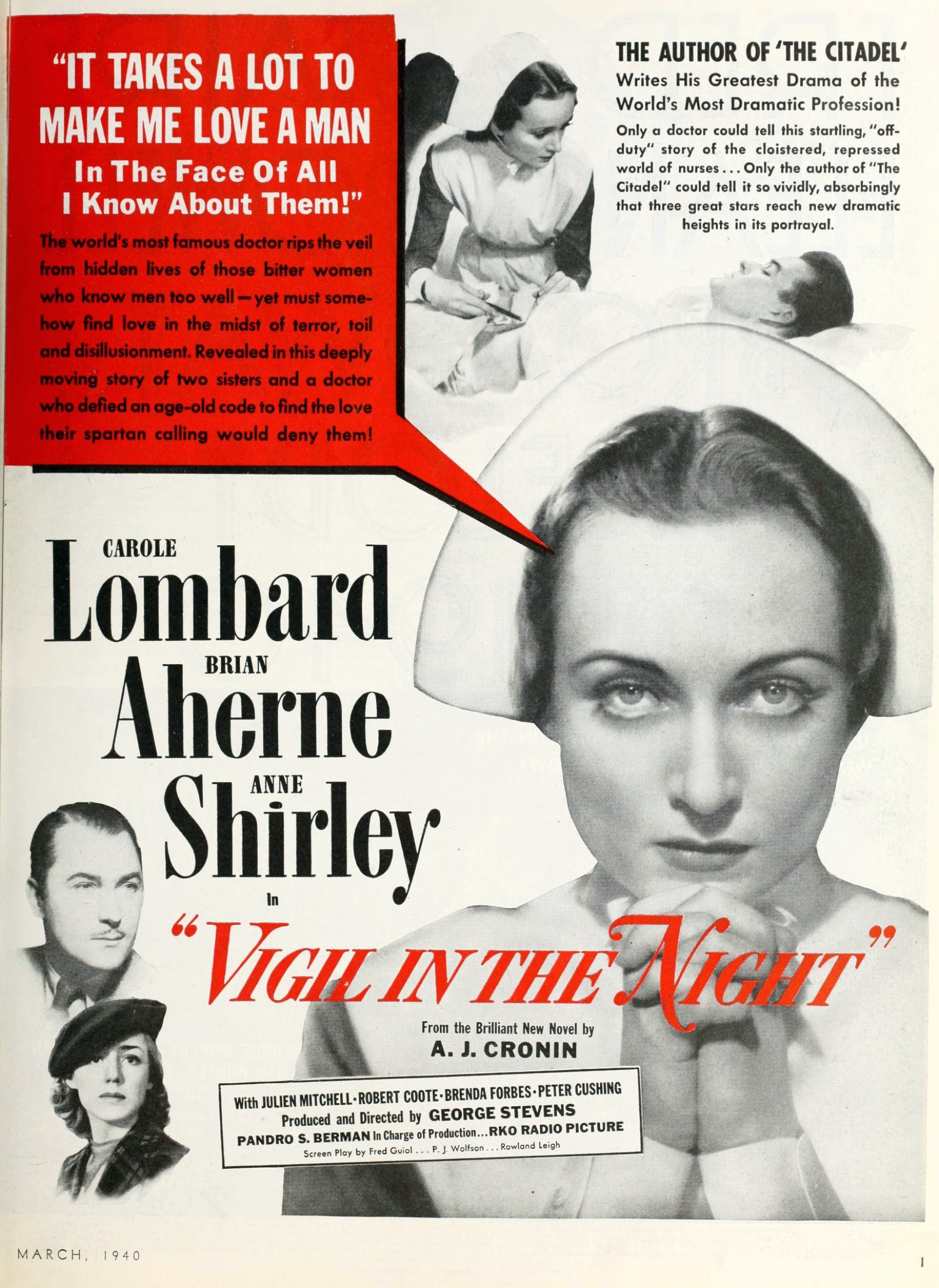 An advertisement for the film Vigil in the Night (1940) from an edition of Photoplay magazine